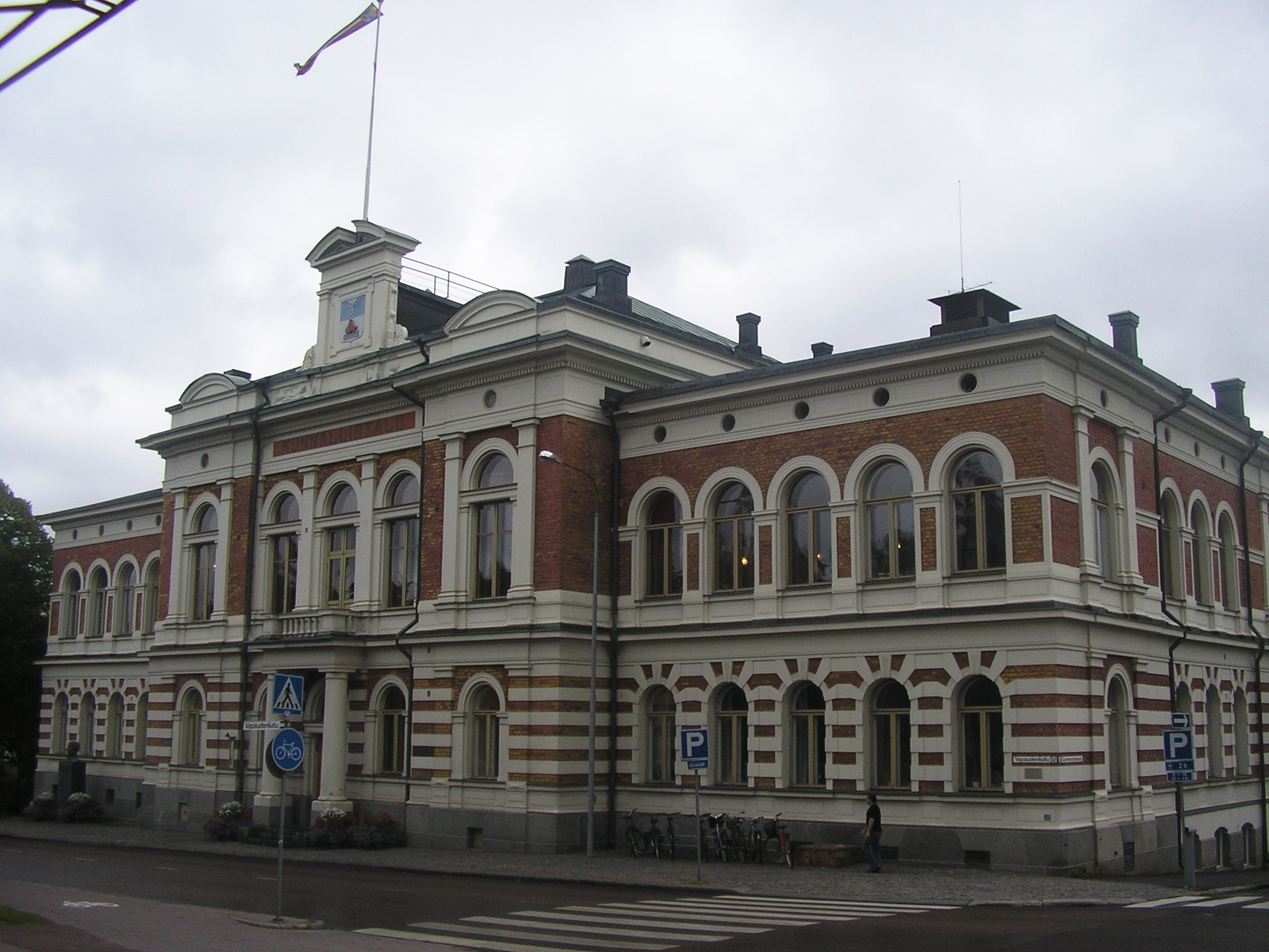 Jyväskylä town hall